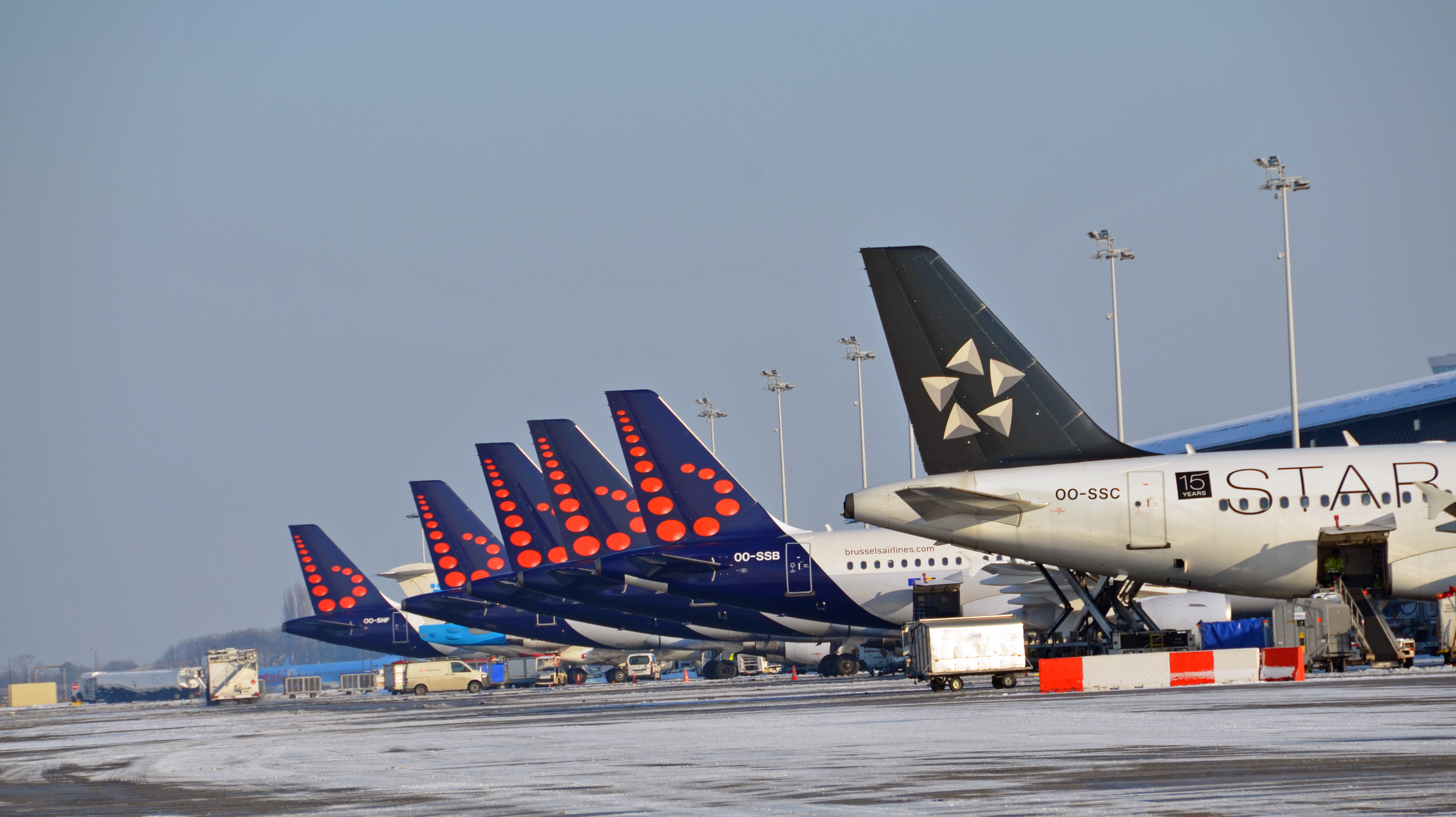 Winter Operations @ Brussels Airport January 2013